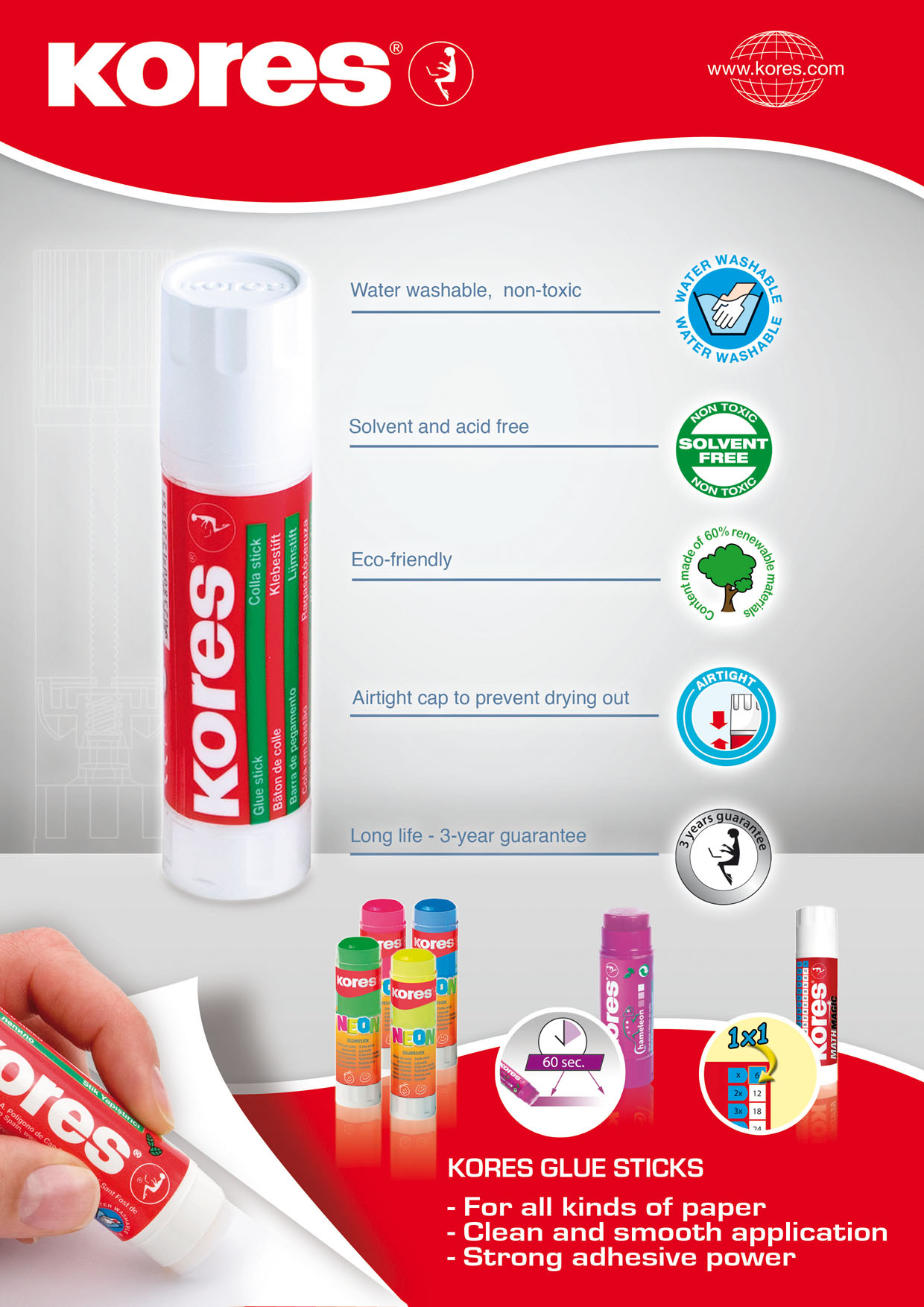 Kores glue stick advert